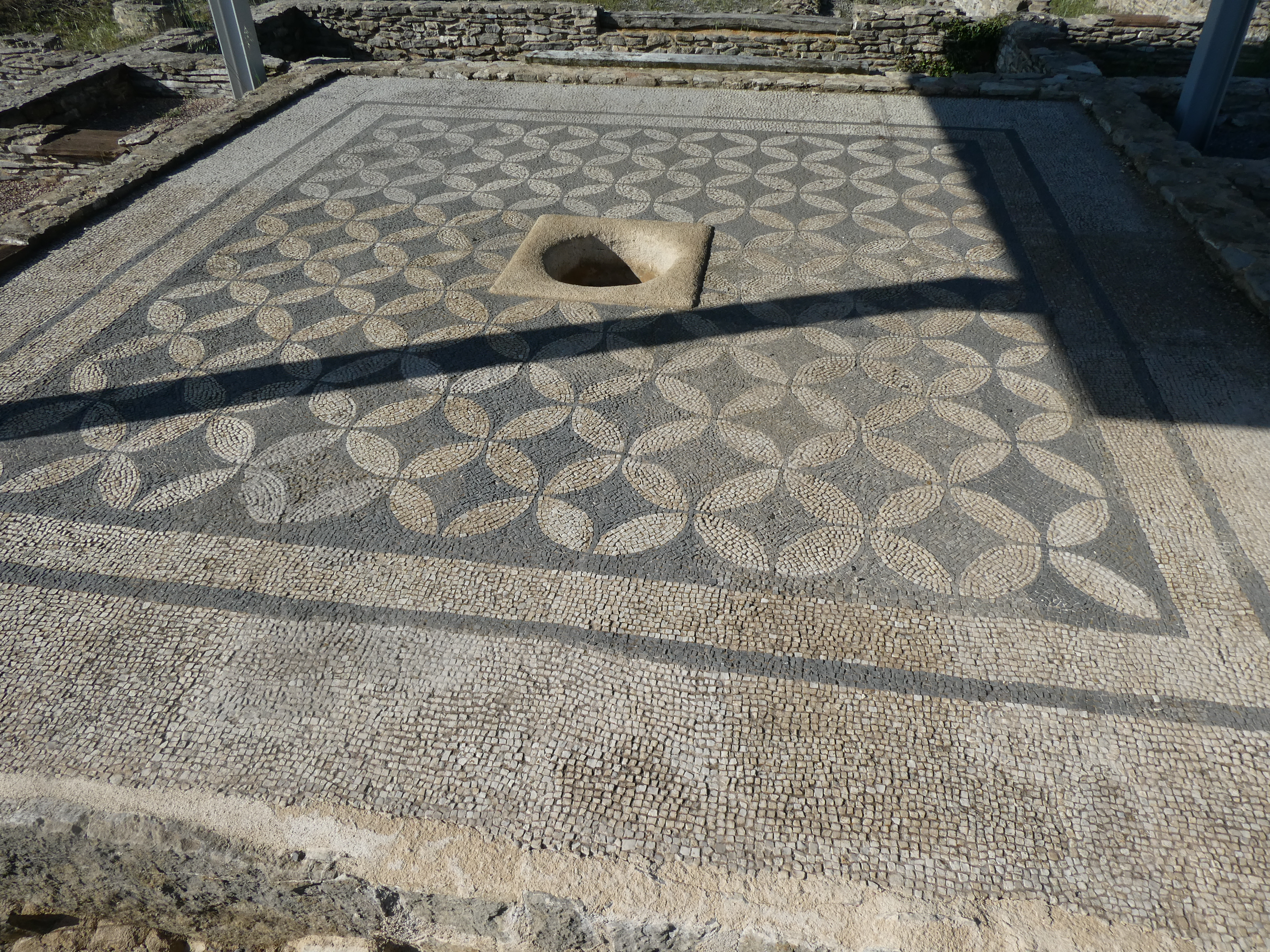 Mosaic of romain house in Veleia